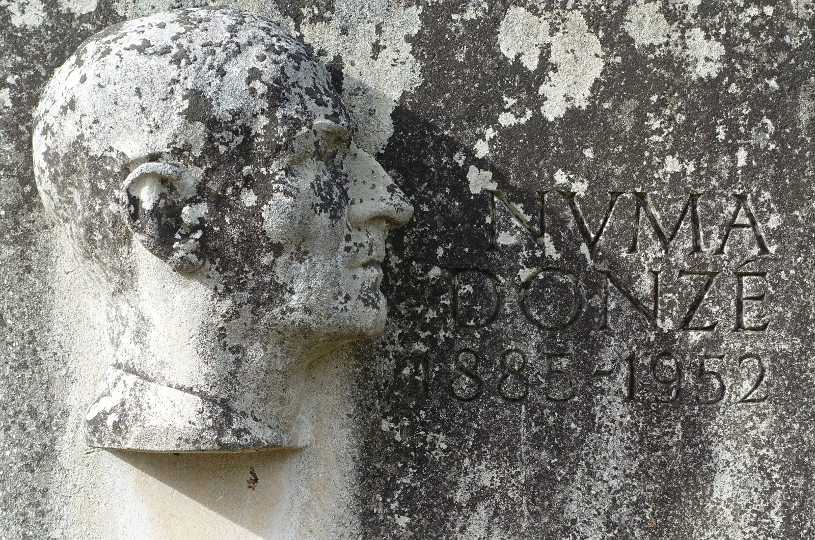 Numa Donzé (1885-1952) Künstler, Maler, Grab auf dem Friedhof am Hörnli, Schweiz